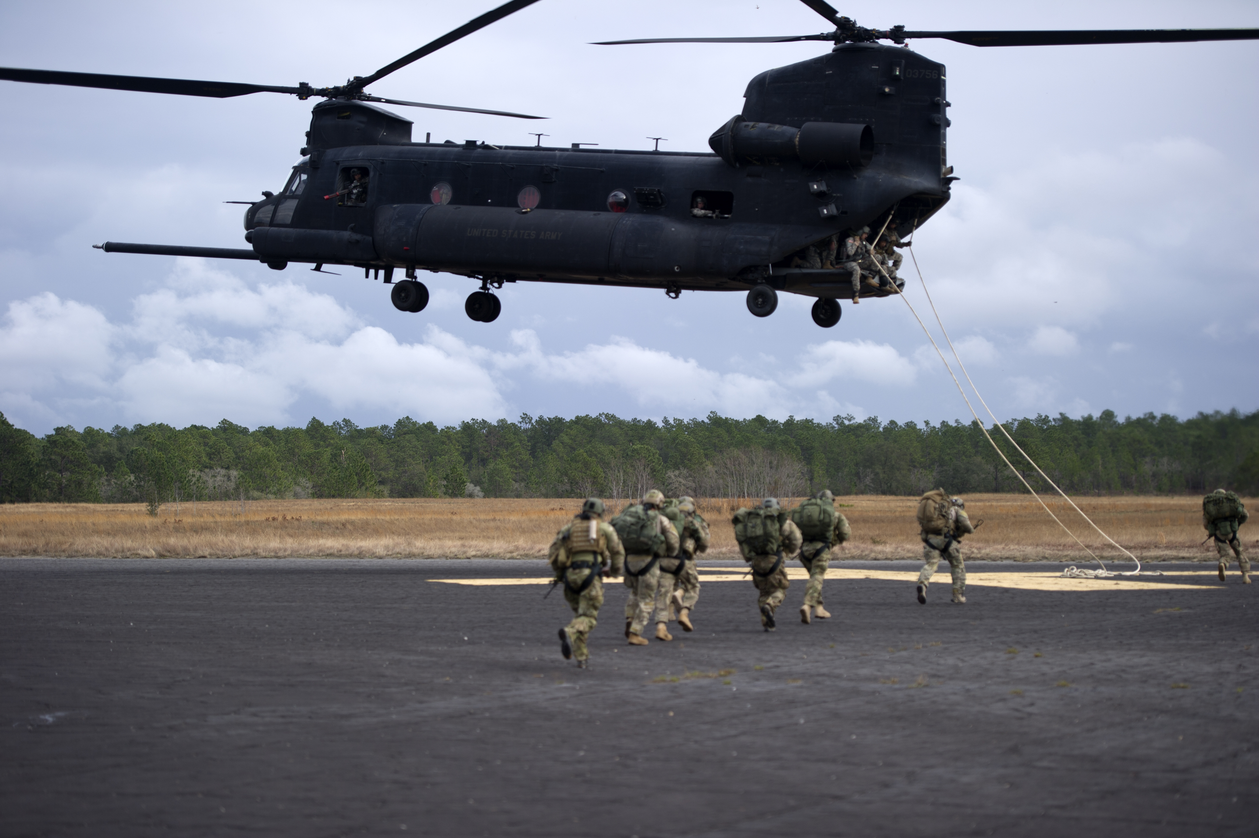 An Operational Detachment Alpha from 7th Special Forces Group (Airborne) (7 SFG (A)) run towards a CH-47 Chinook helicopter during a training event Eglin Base Air Force Base, Fl., Feb. 05, 2013. Green Berets from 7SFG (A) participated in a training event in which they practiced Special Purpose Insertion Extraction (SPIE). Spies are used to rapidly insert or extract Soldiers from terrain that does not allow helicopters to land. (U.S. Army photo by Spc. Steven Young/Released)